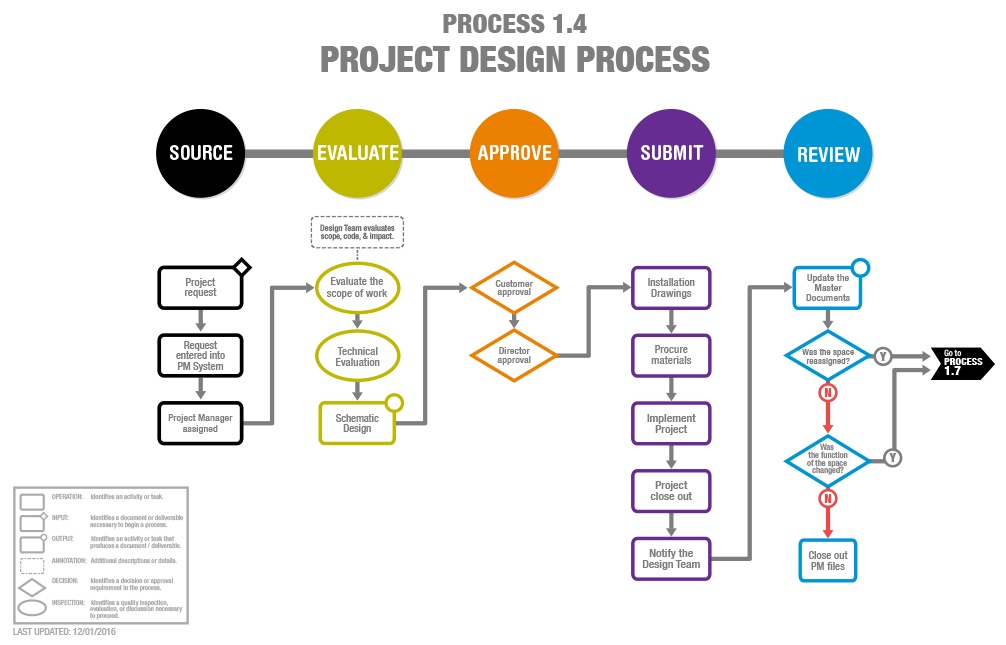 A sample project design process diagram created using the HPM method.